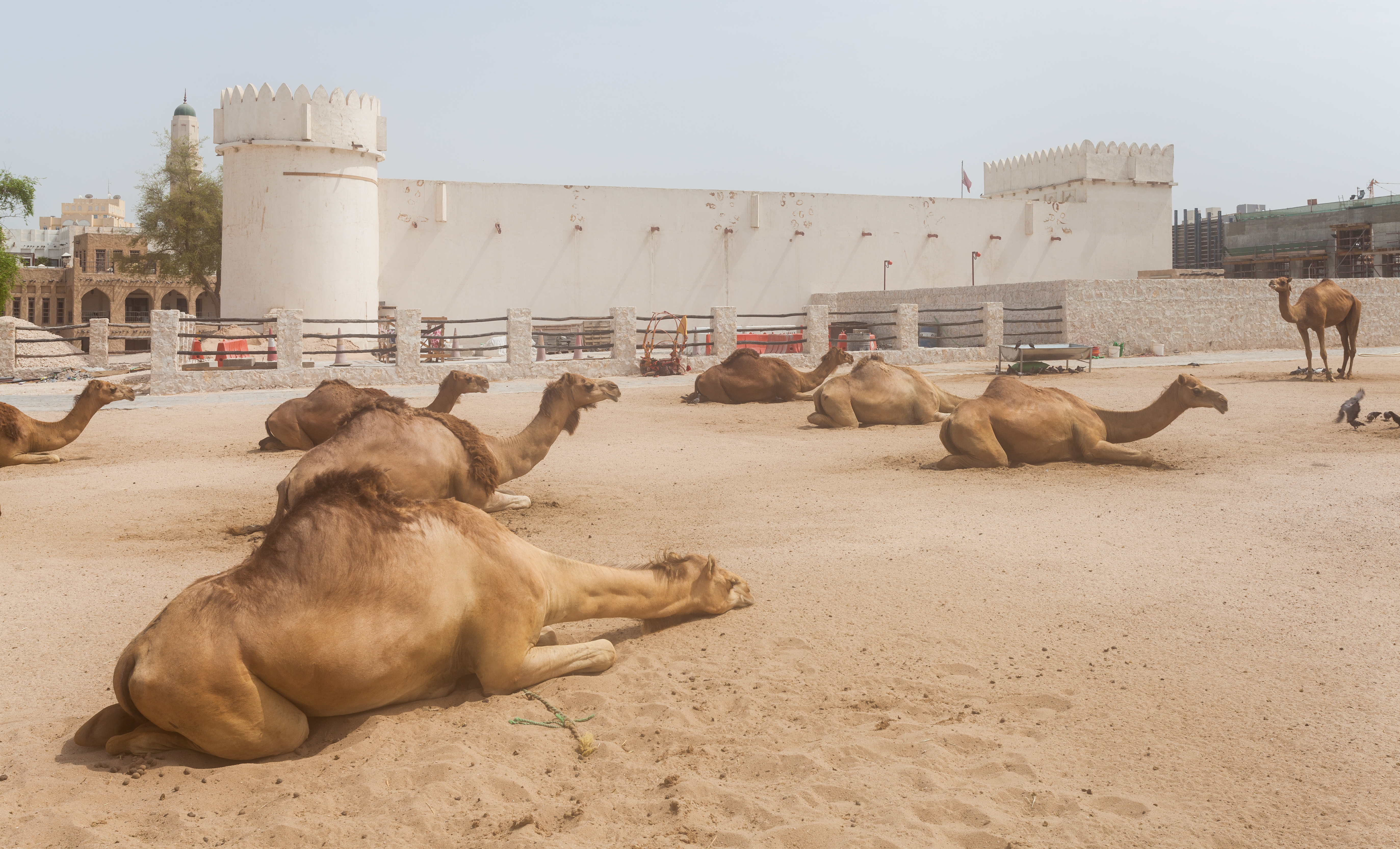 Al Koot Fort, Qatar